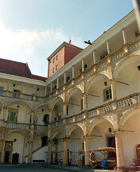 Piast Castle Courtyard in Brzeg.